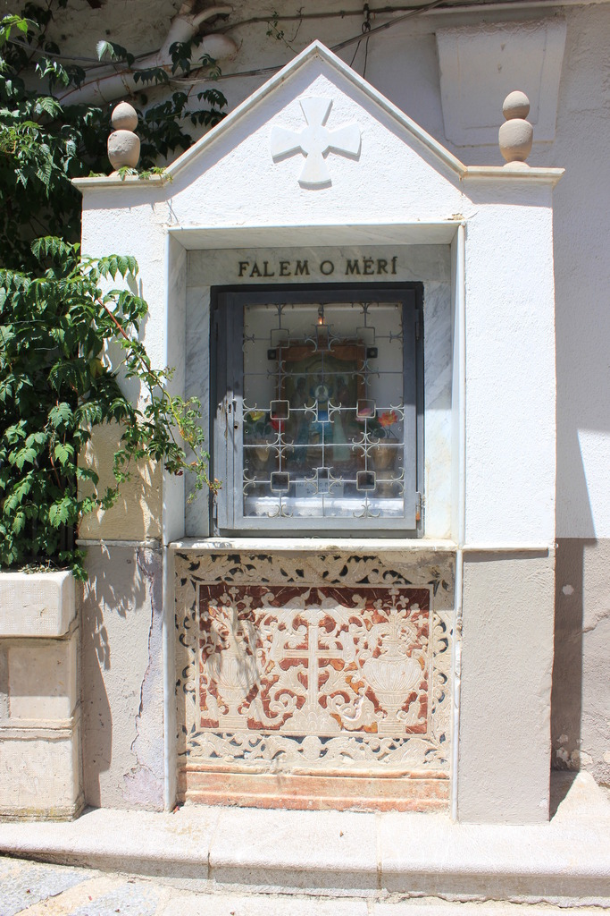 Image of Saint Mary in Hora e Arbëreshëvet, Sicily